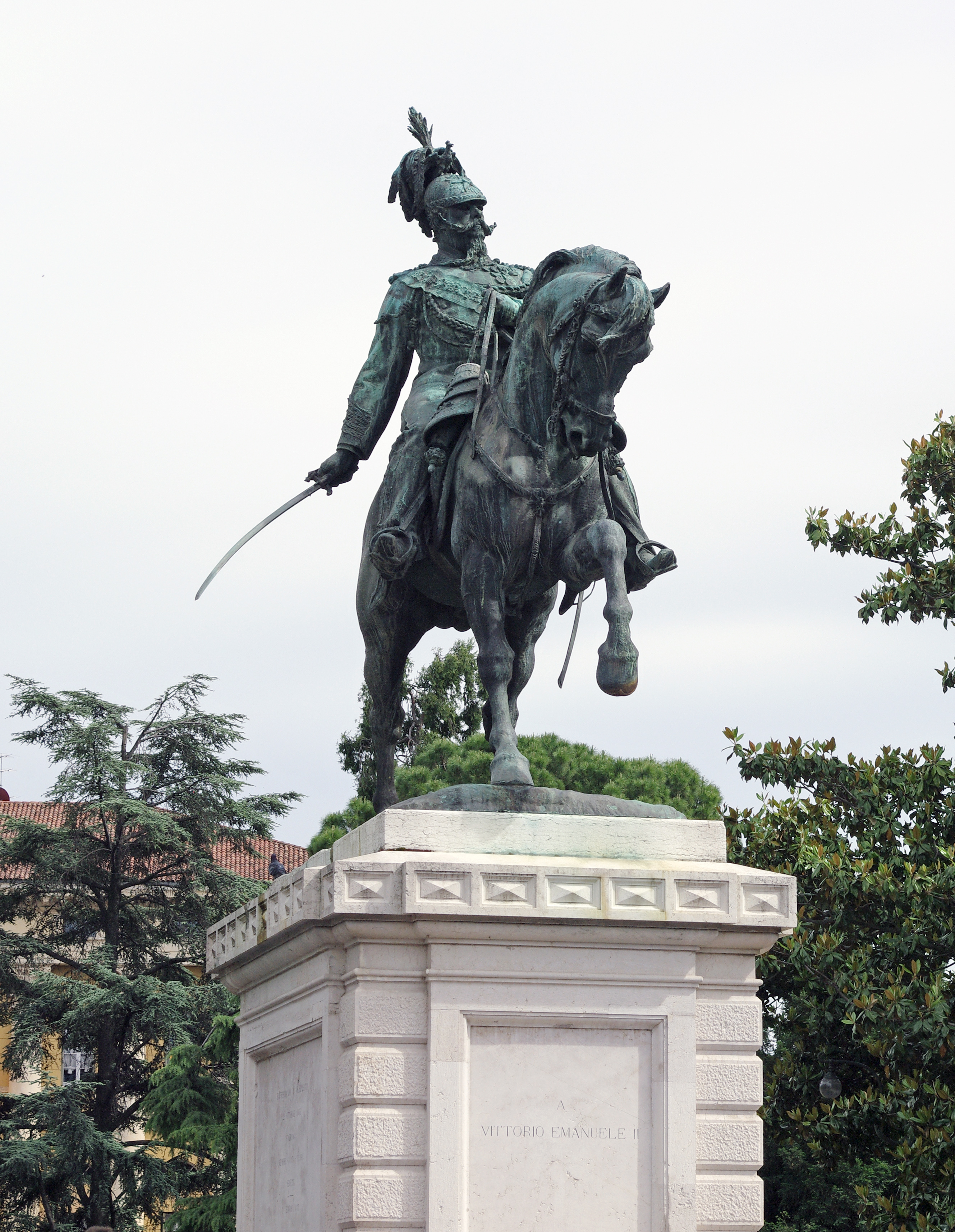 Monument of Victor Emmanuel II in Verona, Italy